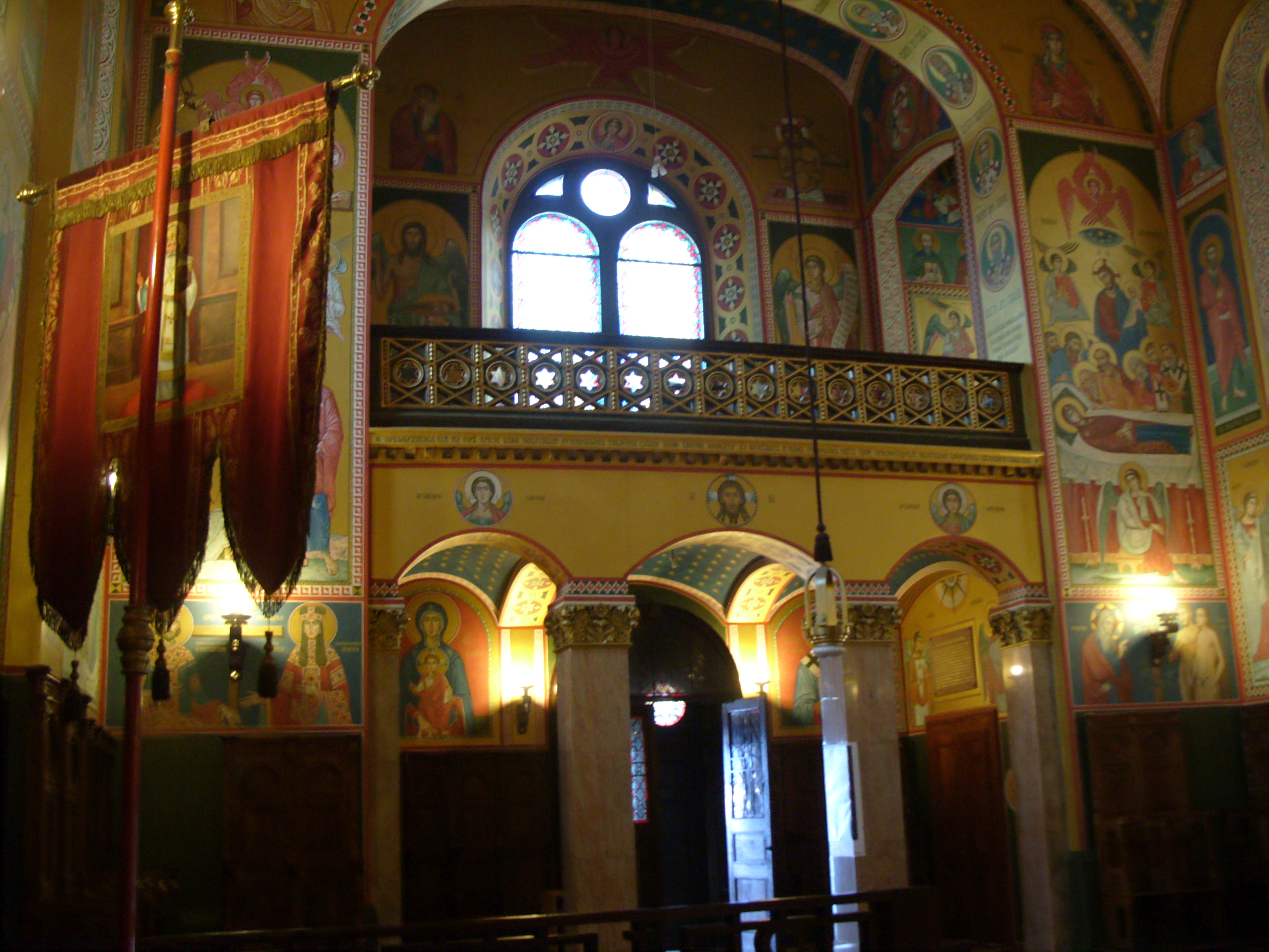 Inside the Orthodox Church in Zagreb.